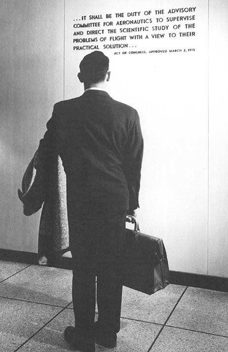 NACA's (the predecessor of NASA) mission statement. "...it shall be the duty of the advisory committee for aeronautics to supervise and direct the scientific study of the problems of flight with a view to their practical solution..."